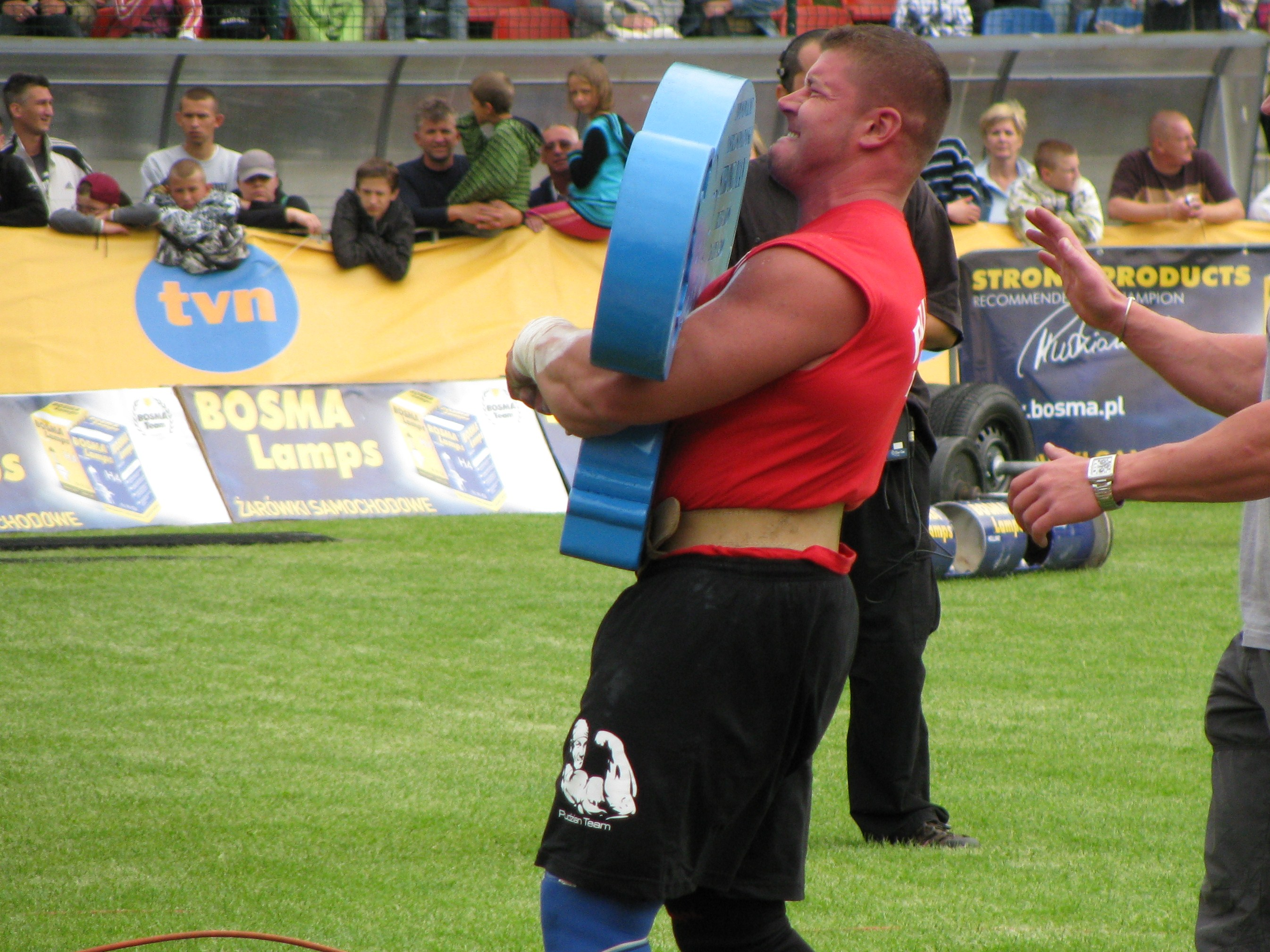 Janusz Kulaga - a strength athlete from Poland.